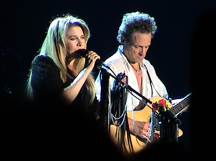 Stevie en Lindsey ( Oberhausen 2003) - eigendom Bumperke.